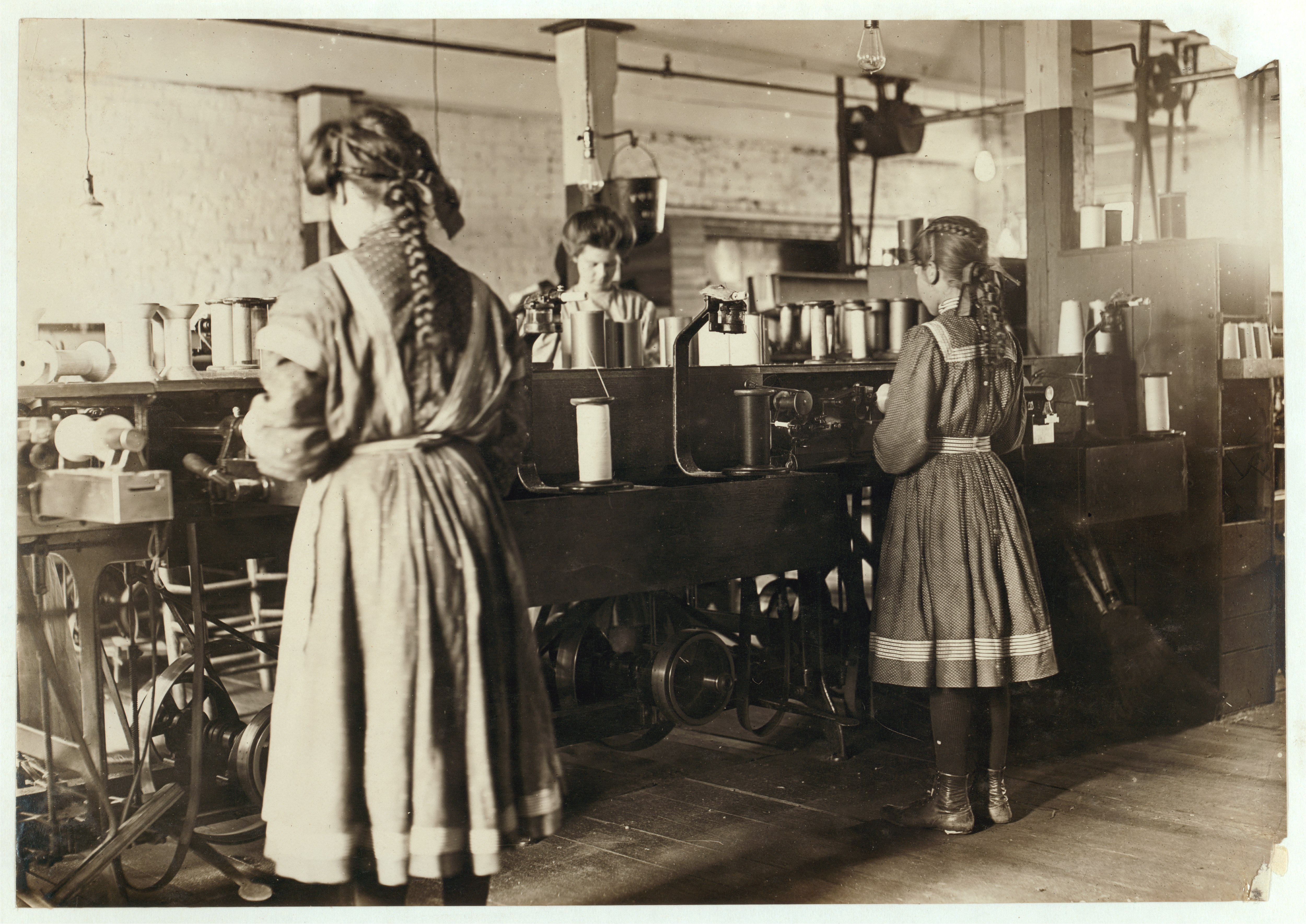 Title: In the spool cotton dept. Bibb Mfg. Co., No. 1, Macon, Ga. Jan. 19, 1909. L.W.H. Abstract: Photographs from the records of the National Child Labor Committee (U.S.) Physical description: 1 photographic print. Notes: Girls.; Textile mill workers.; Cotton industry.; Spinning machinery.